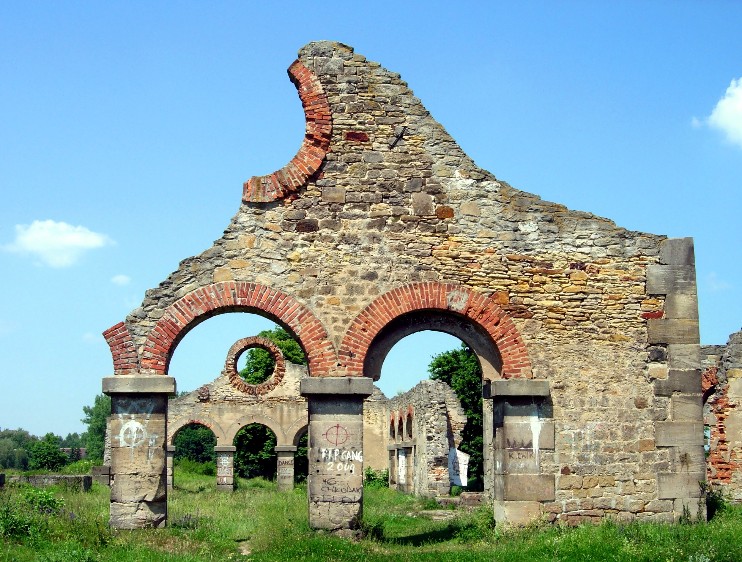 The ruins of the rolling mill in Nietulisko, Poland (1st half of XIX c.)